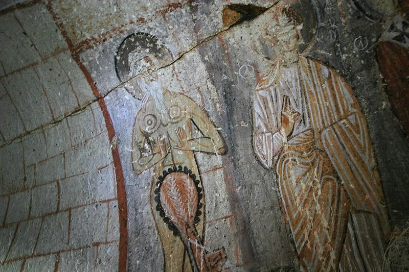 For millions of years, the volcanoes of the Central Anatolian Plateau erupted and created wondrous landscape of Cappadocia, Turkey. The first period of settlement within the region reaches to Roman period of Christianity era. In the image you can see a fresco of Onuphrius (bearded figure) in Yilanli (Snake) Church dating back to 11th century. The image was taken by Brocken Inaglory. The picture was taken in April of 2006.